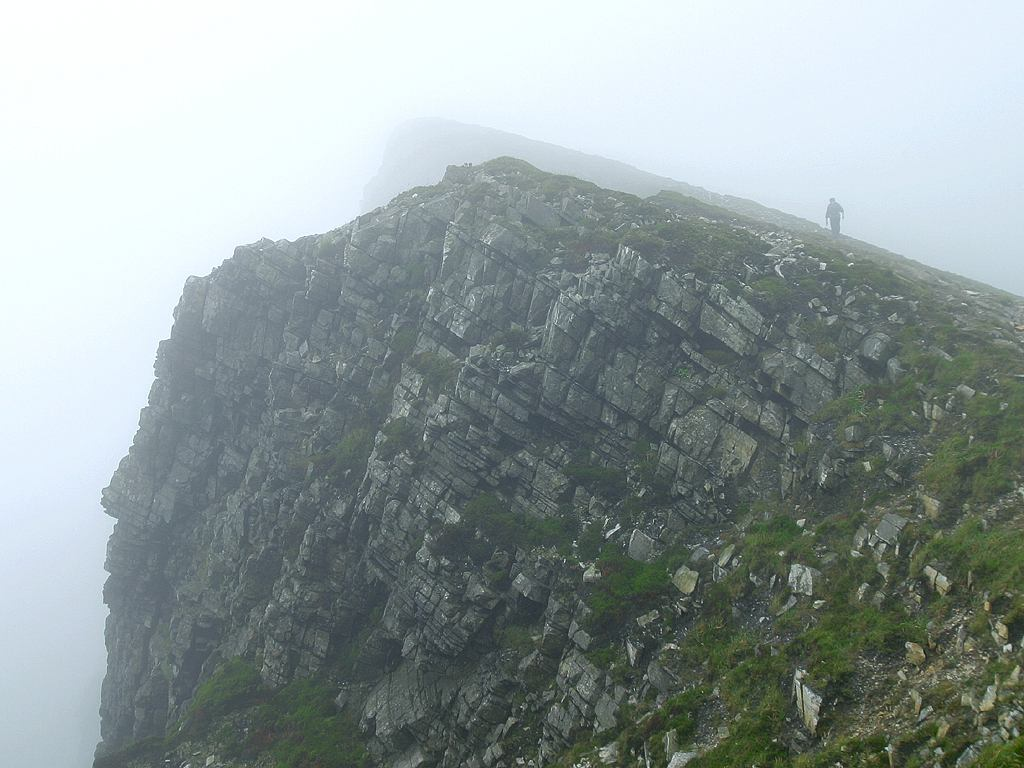 Slieve League cliffs, in County Donegal in Ireland.